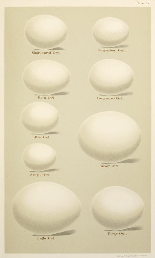 Eggs of British Birds Seebohm 1896 Short-eared Owl (Asio flammeus) Tengmalm's Owl or Boreal Owl (Aegolius funereus) Barn Owl (Tyto alba) Long-eared Owl (Asio otus) Little Owl (Athene noctua) Eurasian Scops Owl (Otus scops) Snowy Owl (Bubo scandiacus) Eurasian Eagle-Owl (Bubo bubo) Tawny Owl or Brown Owl (Strix aluco)